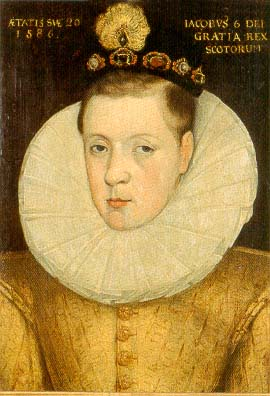 Oil on panel portrait of King James VI of Scotland, aged 20